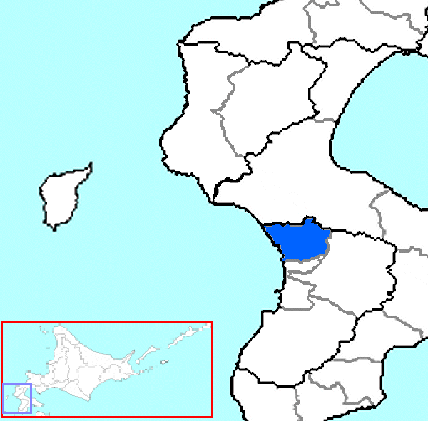 The location of Assabu in Hiyama Subprefecture, Hokkaido Prefecture, Japan.